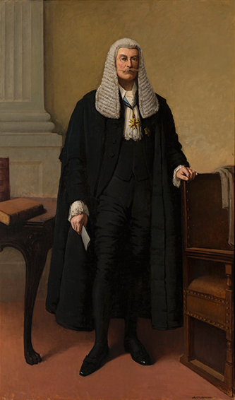 The Hon. Sir Richard Chaffey Baker KCMG QC, first President of the Australian Senate (1901–1906)